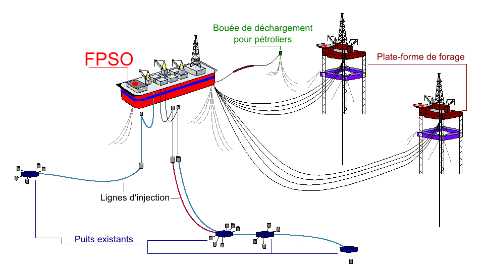 FPSO (built in Ferrol)